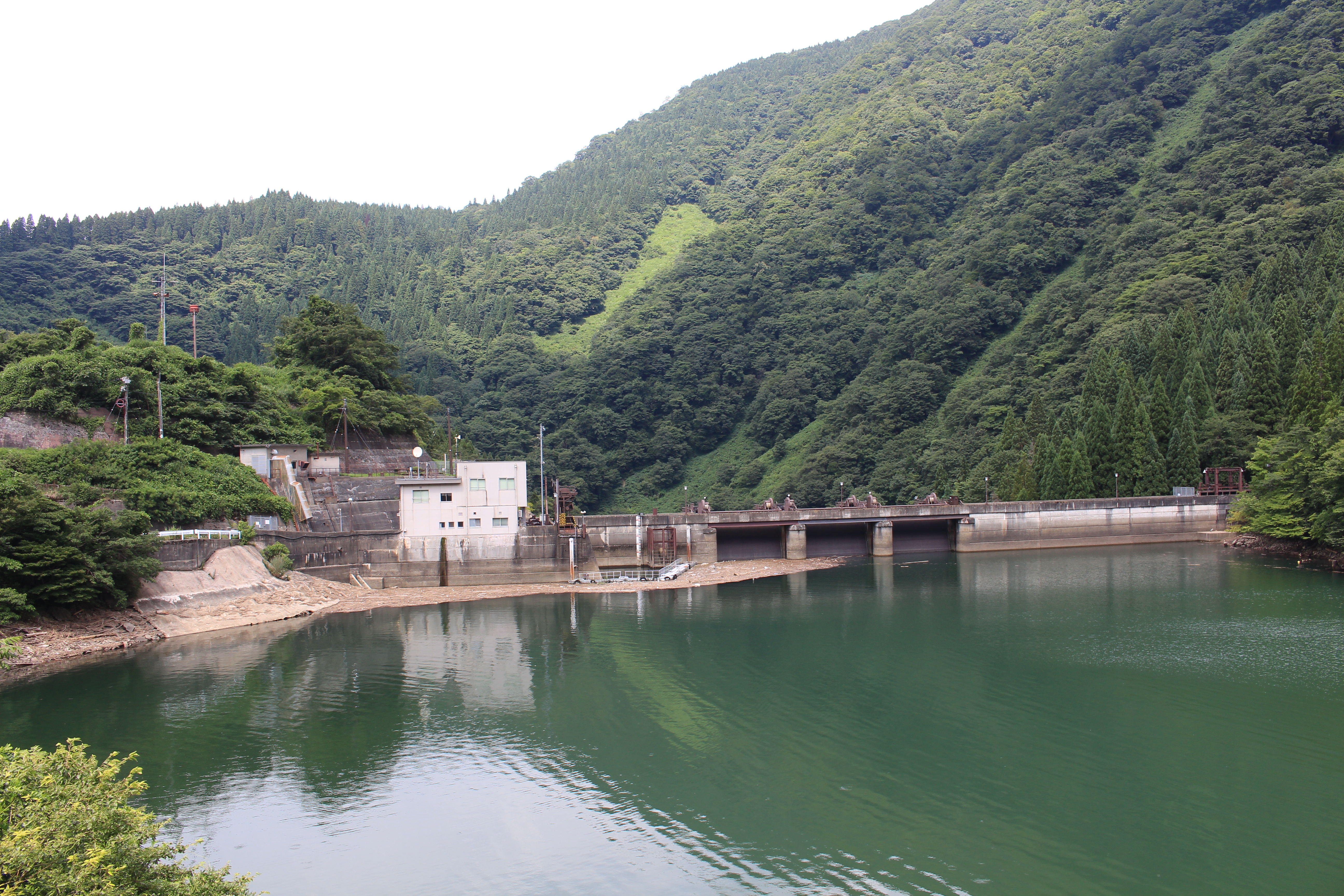 Hotokebara Dam of Kuzuryu River, in Hotokehara, Ono, Fukui prefecture, Japan.